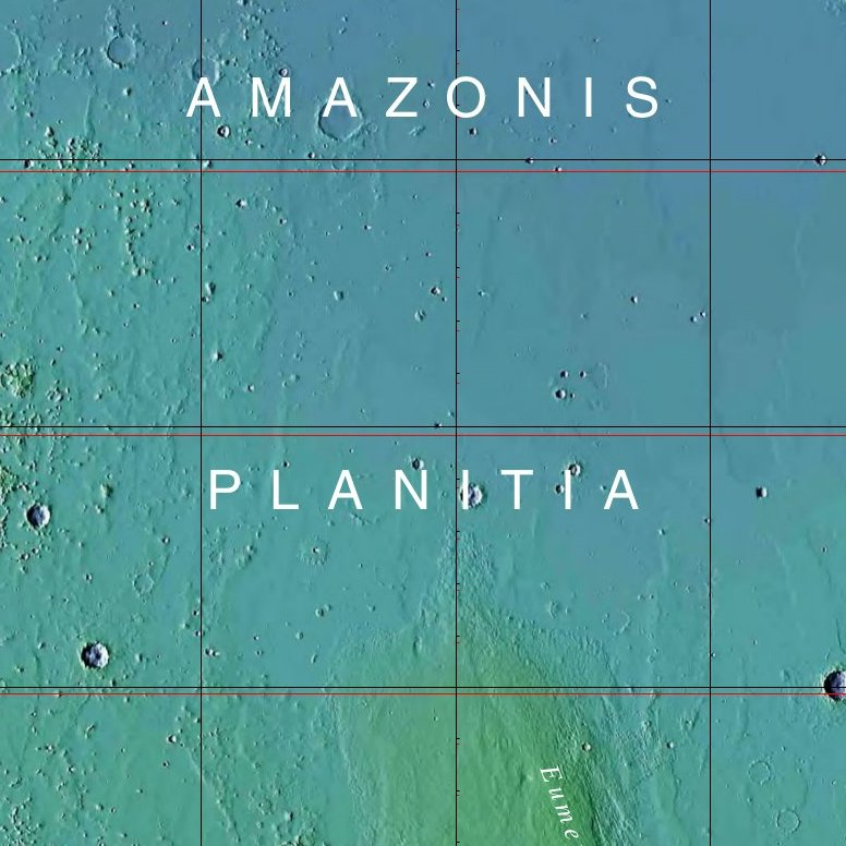 MOLA Topographic Map of Amazonis Quadrangle (MC-8) on the planet Mars. (cropped version - Amazonis Planitia area). NOTE: Converted the original PDF File to a PNG File (via GIMP v2.8.4 program) - cropped/converted to JPG File (via Paint Shop Pro 6.02) - and uploaded to Wikimedia Commons.